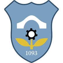 Vranje coats of arms, Serbia